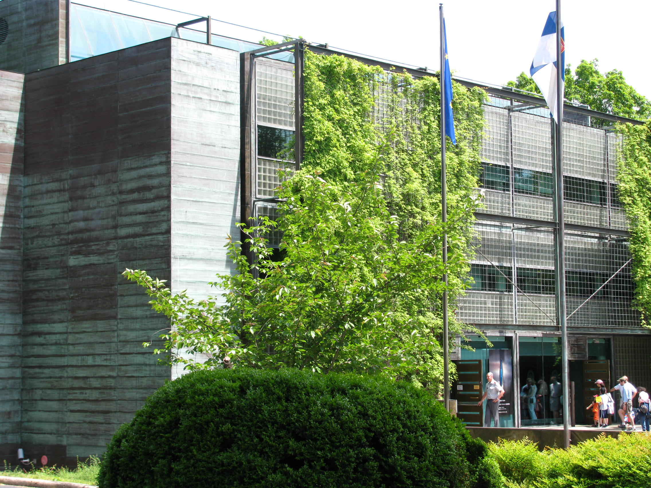 oblique left view of Finnish Embassy Washington, D.C.